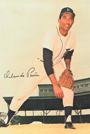 Professional baseball player Orlando Pena